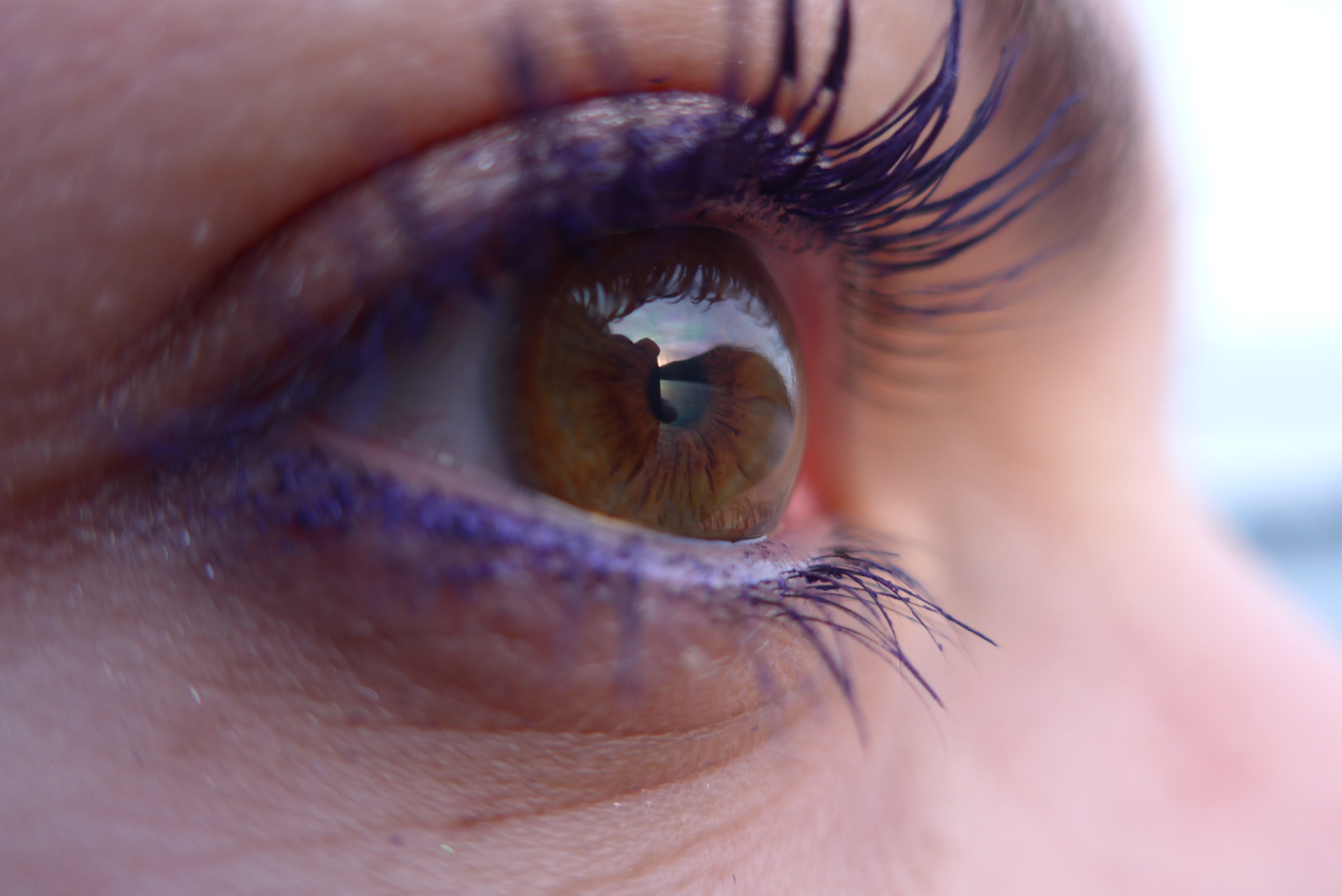 Reflection of sunset in an eye contact lense, Chalcis, Greece